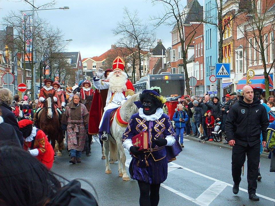 Arrival of Sinterklaas from Spain in Groningen, The Netherlands (2015). In front of Sinterklaas is Head Pete (hoofdpiet), carrying The Book of Sinterklaas (Het Boek van Sinterklaas). In it is written down whether each child has been good or naughty in the past year. On the far right an Assistant Pete (hulppiet) carrying the Crosier (staf) of Sinterklaas. On the left in red one of the many Petes who run around, handing out candy to the children along the road. Behind Sinterklaas are Spanish Nobles, who accompanied Sinterklaas on his voyage from Spain. Not on the picture, because they already had past, horse drawn carts loaded with presents for the children. The presents are (of course) brought from Spain. Sinterklaas is on his way from the boat to the City Hall, where he will be officially welcomed by the City Mayor.